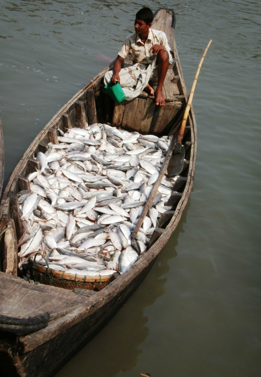 A boat full of Hilsha (Tenualosa ilisha) fish caught from Bay of Bengal in the night of 17 November 2010